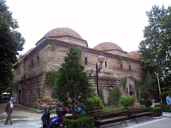 View from outside, image from the Archaeological Museum, Serres, East Macedonia, Greece